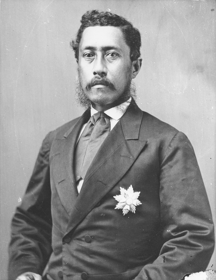 Lunalilo